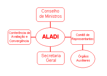 ALADI's organizational chart